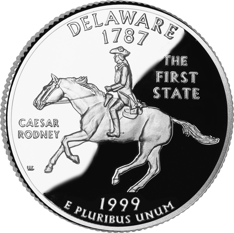 Removed background, cropped, and converted to PNG with Macromedia Fireworks. This image depicts a unit of currency issued by the United States of America. If Fraudulent use of this image is punishable under applicable counterfeiting laws. As listed by the United States Secret Service at money illustrations, the Counterfeit Detection Act of 1992, Public Law 102-550, in Section 411 of Title 31 of the Code of Federal Regulations (31 CFR 411), permits color illustrations of U.S. currency provided:1. The illustration is of a size less than three-fourths or more than one and one-half, in linear dimension, of each part of the item illustrated;2. The illustration is one-sided; and3. All negatives, plates, positives, digitized storage medium, graphic files, magnetic medium, optical storage devices, and any other thing used in the making of the illustration that contain an image of the illustration or any part thereof are destroyed and/or deleted or erased after their final use. Certain coins contain copyrights licensed to the U.S. Mint and owned by third parties or assigned to and owned by the U.S. Mint [1]. For the United States Mint circulating coin design use policy, see [2]; for the policy on the 50 State Quarters, see [3]. Also: COM:ART #Photograph of an old coin found on the Internet